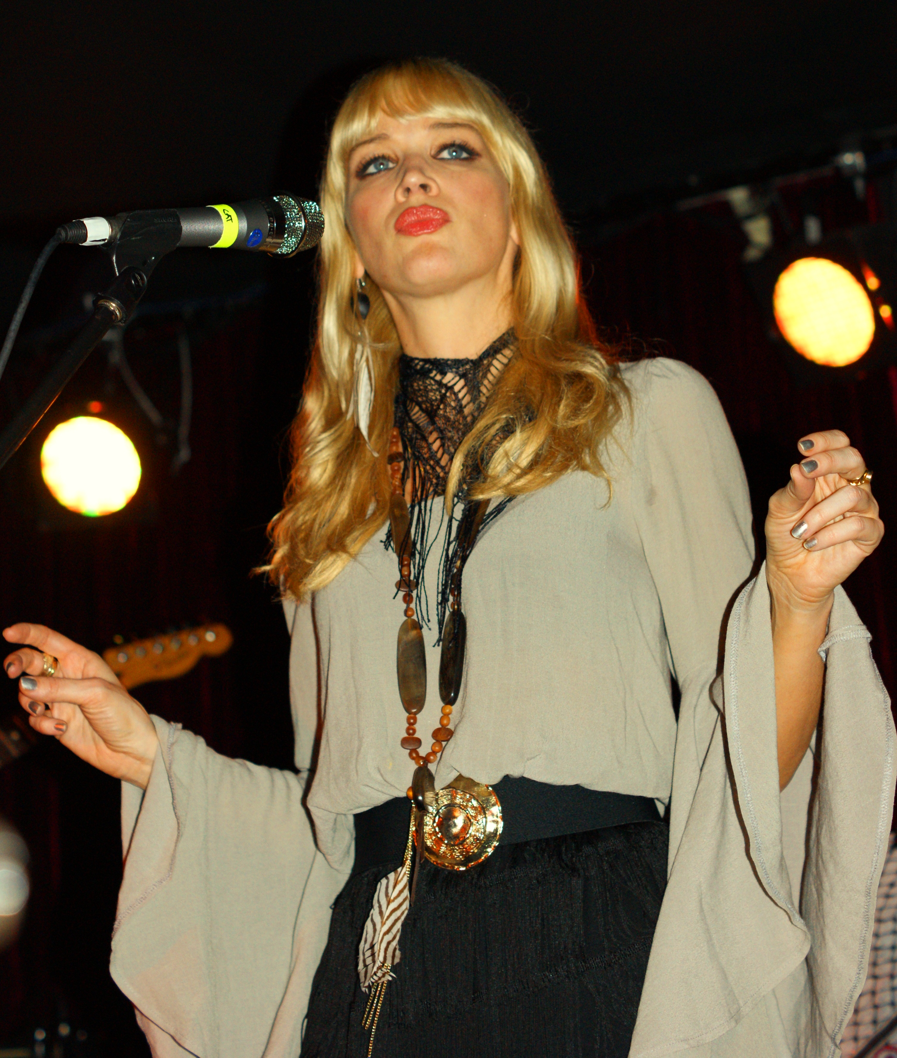 Catherine Pierce of The Pierces at the Ruby Lounge, Manchester, on Saturday the 11th of June 2011.